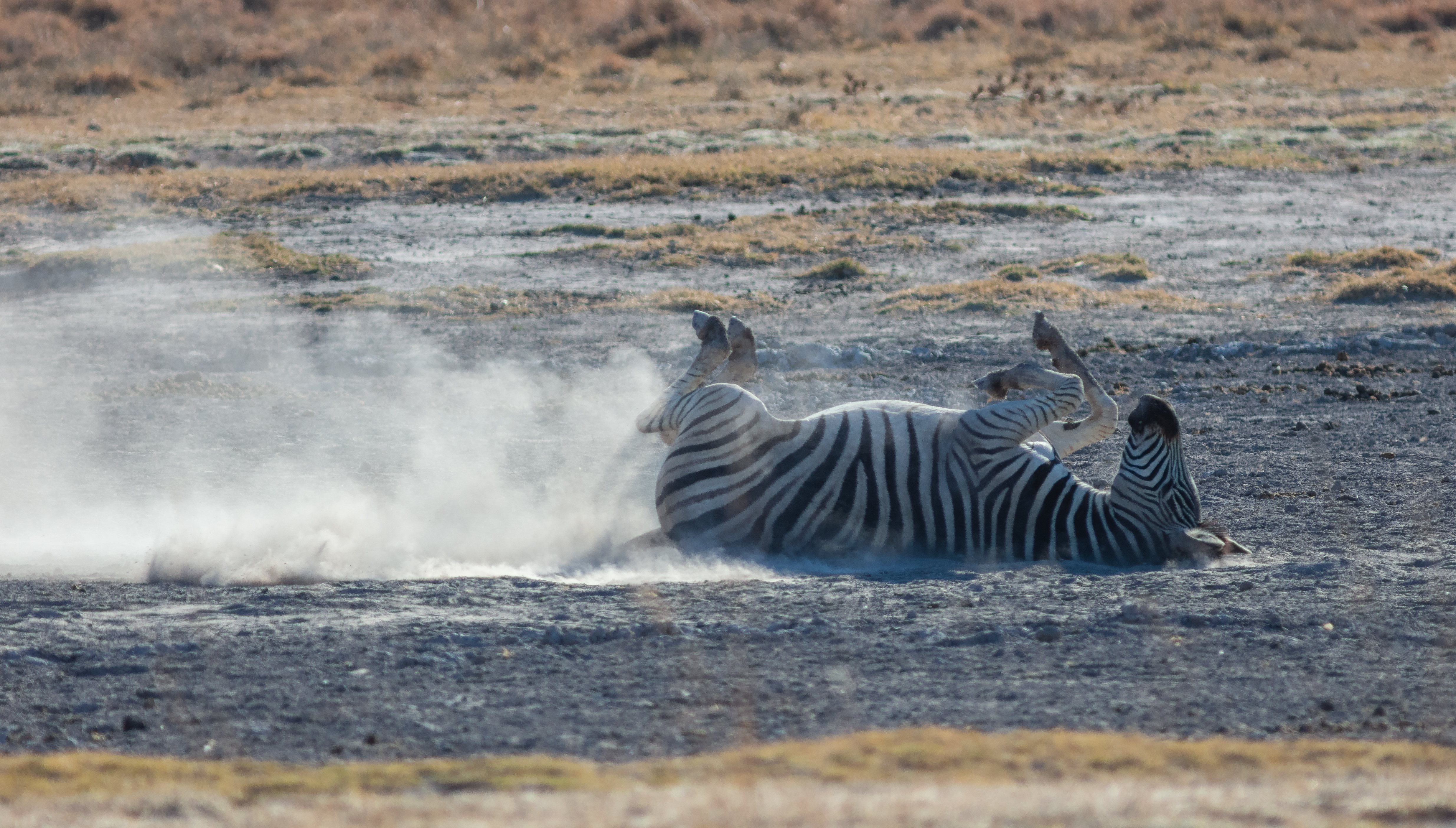 Burchell's zebra (Equus quagga burchellii), Khama Rhino Sanctuary, Botswana